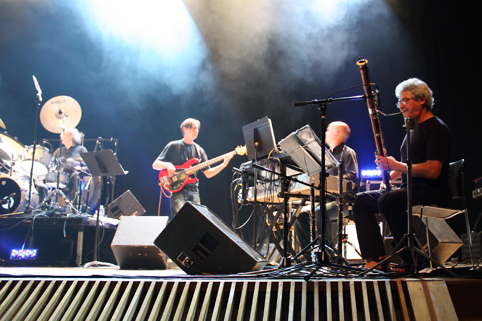 Univers Zero at La Maison Française / Embassy of France, Washington DC 24sept10. Day 8 of the 2010 DC Sonic Circuits festival.